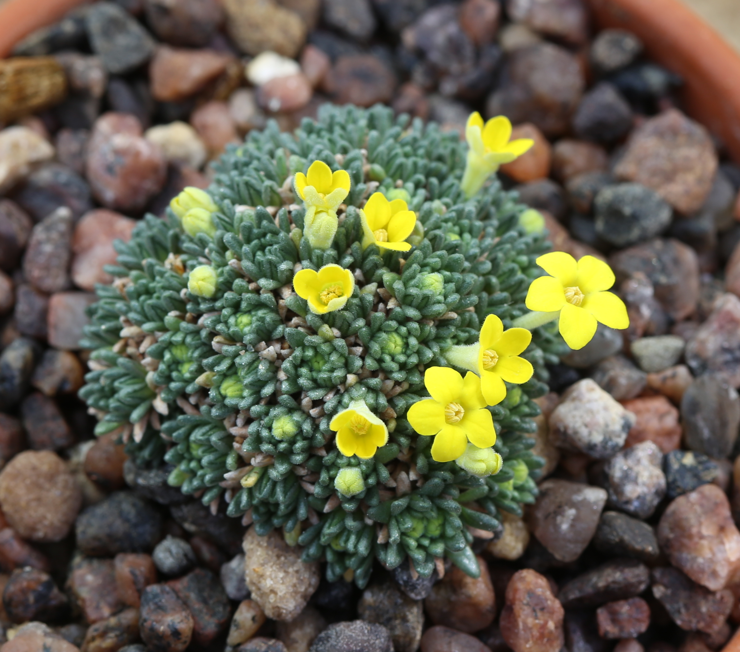 Dionysia rhaptodes at Gothenburg Botanical Garden 2015. Plant id: 2014-1546 p Z -- Tübingen (DZ I01-03)